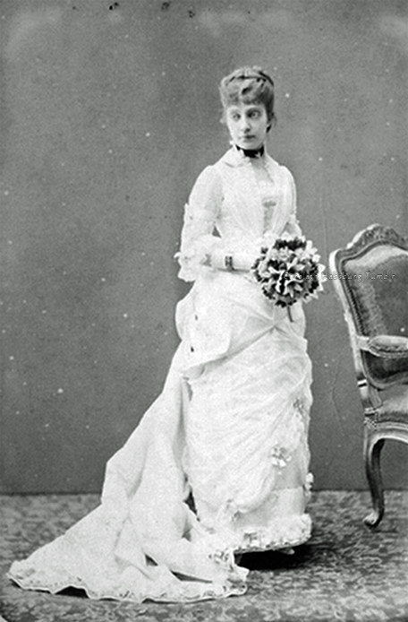 Infanta Pilar of Spain, sister of King Alfonso XII